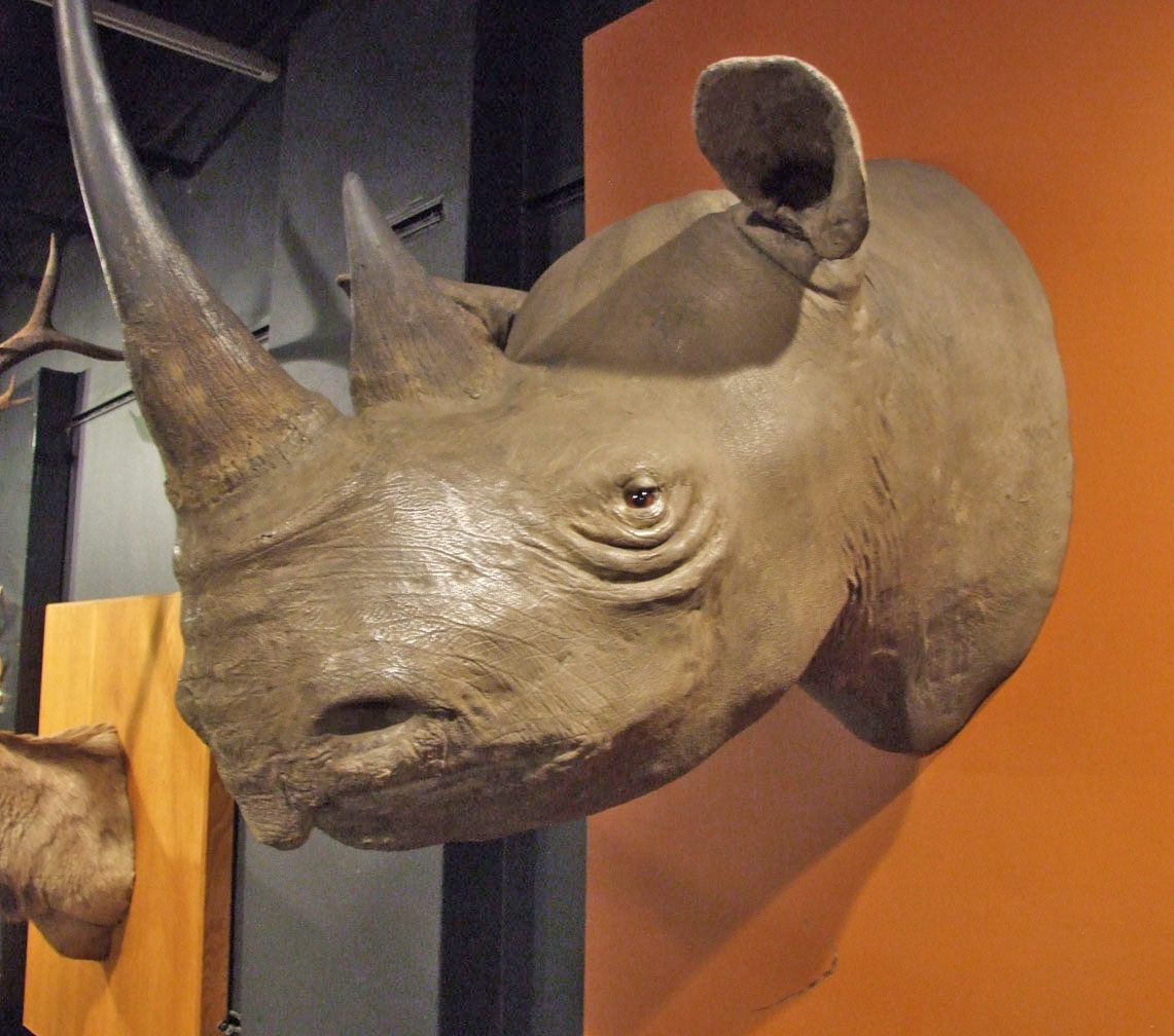 Fiberglass reproduction trophy head of a rhinoceros.